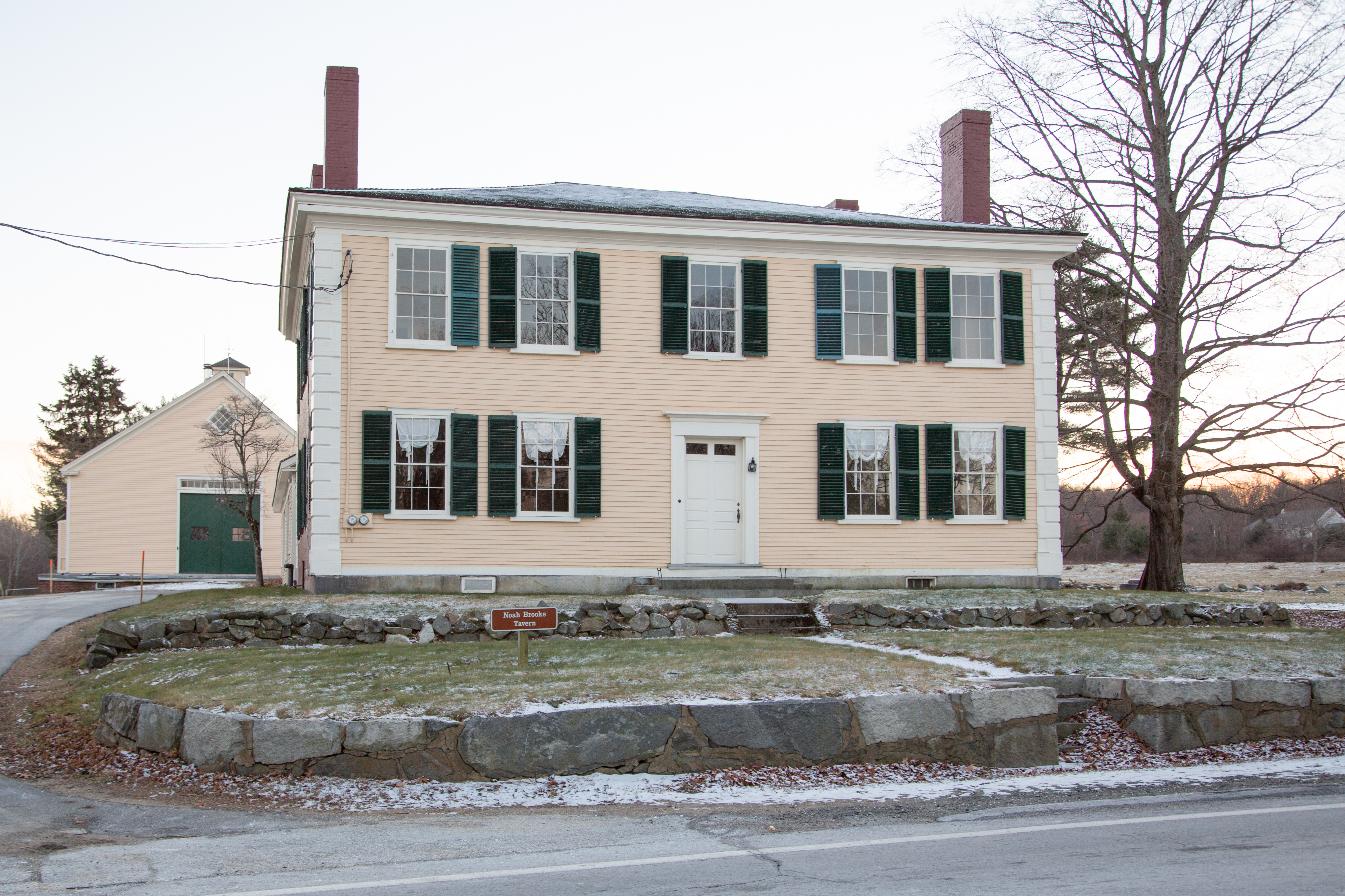 Noah Brooks Tavern along the minuteman trail Concord, Mass